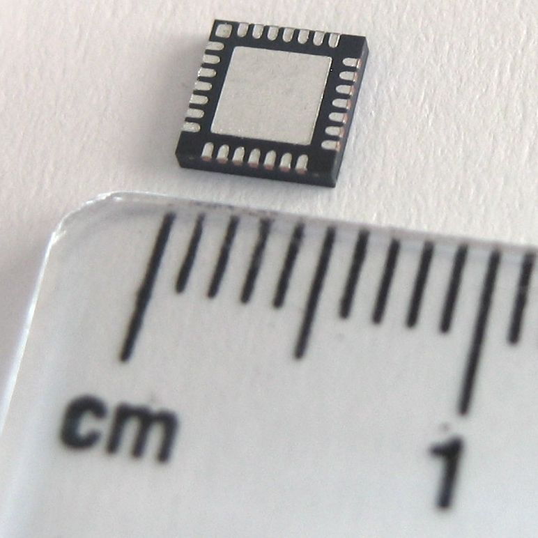 Photograph of the bottom of a 28-pin MLP (Micro Leadframe Package) integrated circuit. The actual part photographed is a CP2102, which is a USB to Serial chip.